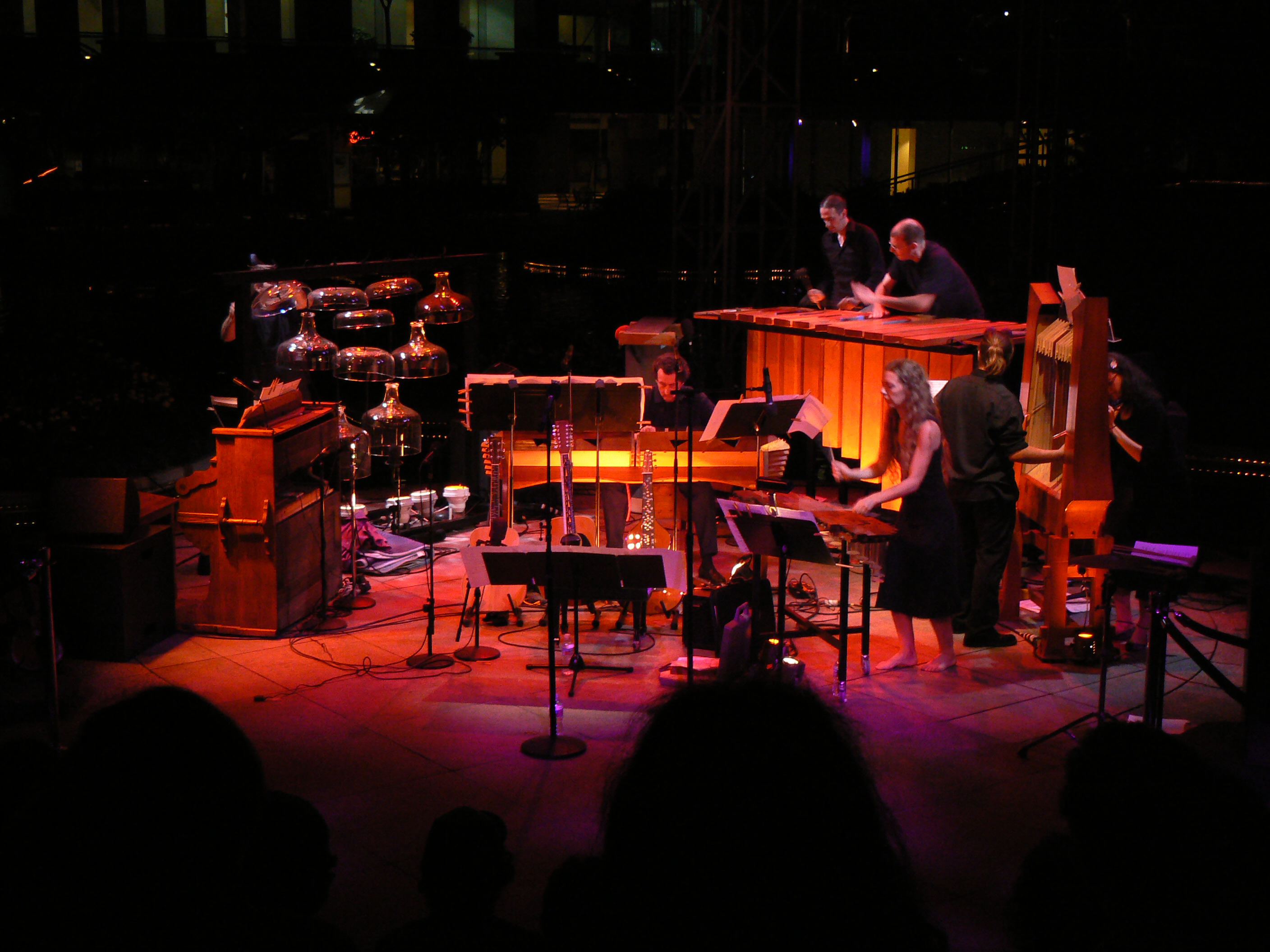 Partch ensemble Tags: California Plaza Harry Partch